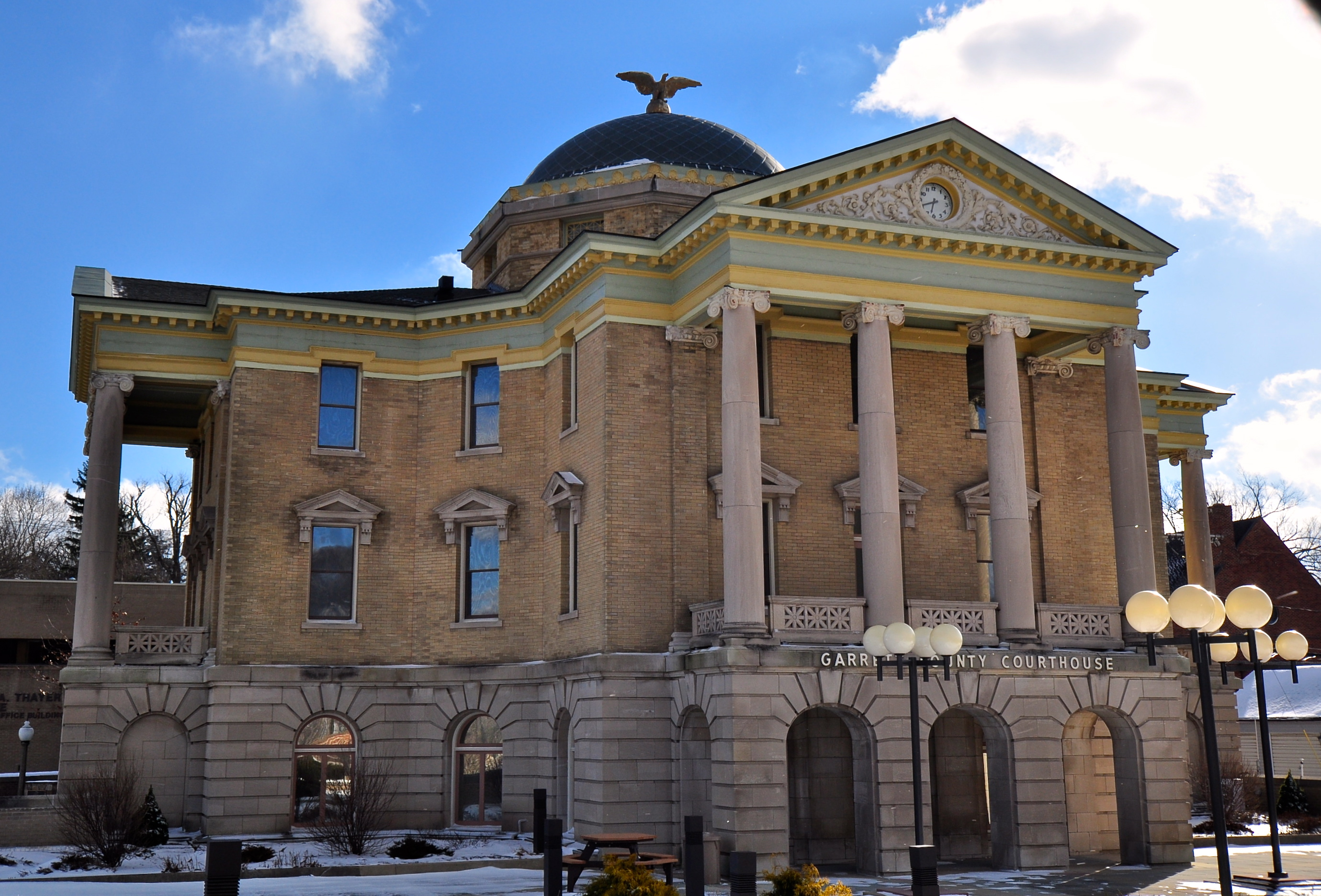 Garrett County Courthouse located in Oakland, Maryland